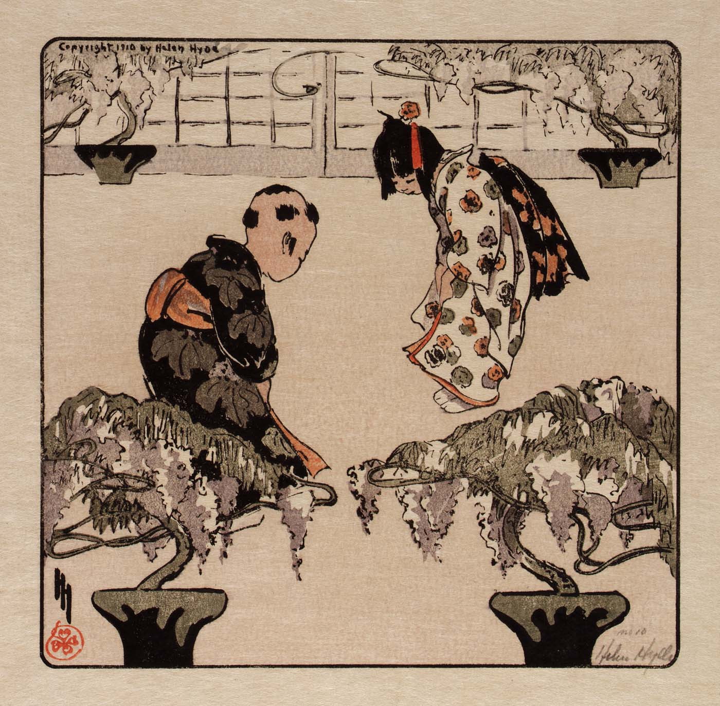 The greeting - 1910 - Helen Hyde